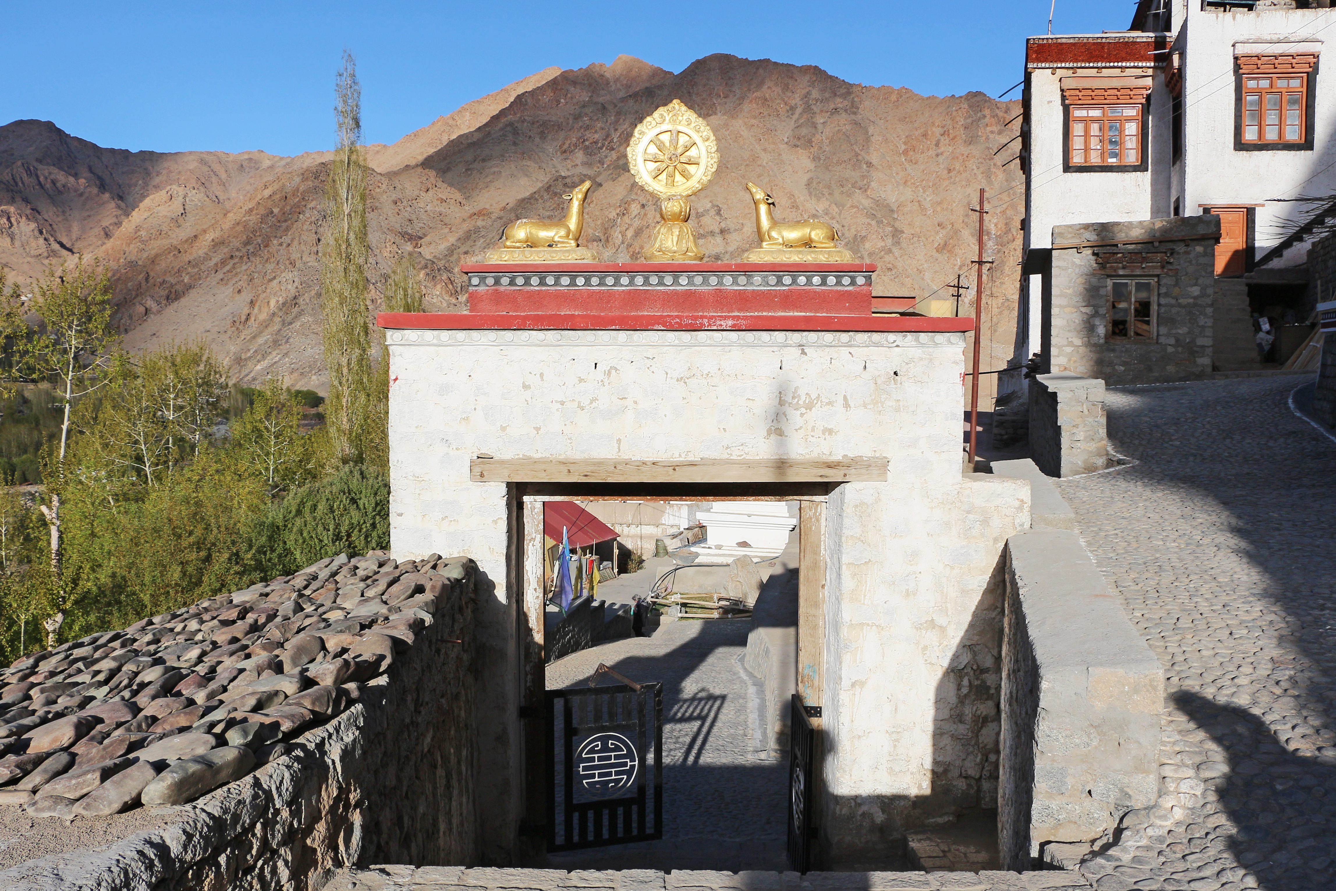 Entrance of Phyang Monastery, Ladakh, India